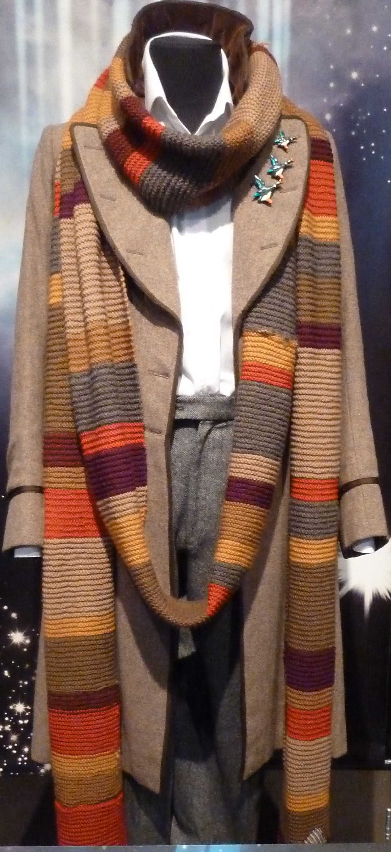 The Fourth Doctor Doctor Who Experience